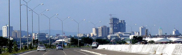 The SRP is Cebu's centerpiece for development. This 300 hectare PEZA registered special economic zone is owned and operated by the City Government.